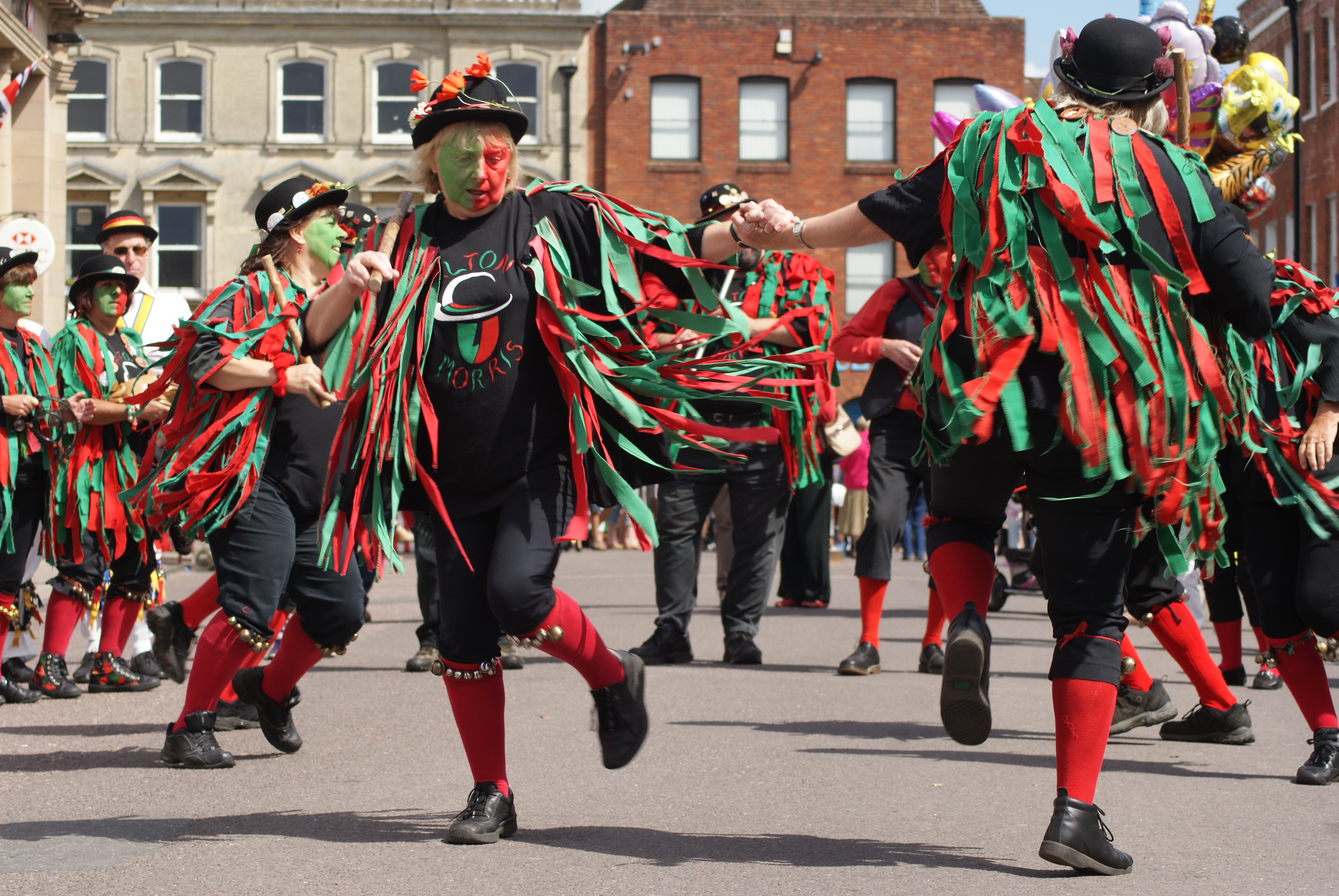 Captured by James Marshall. Alton Morris at the 2011 Wimborne Folk Festival.